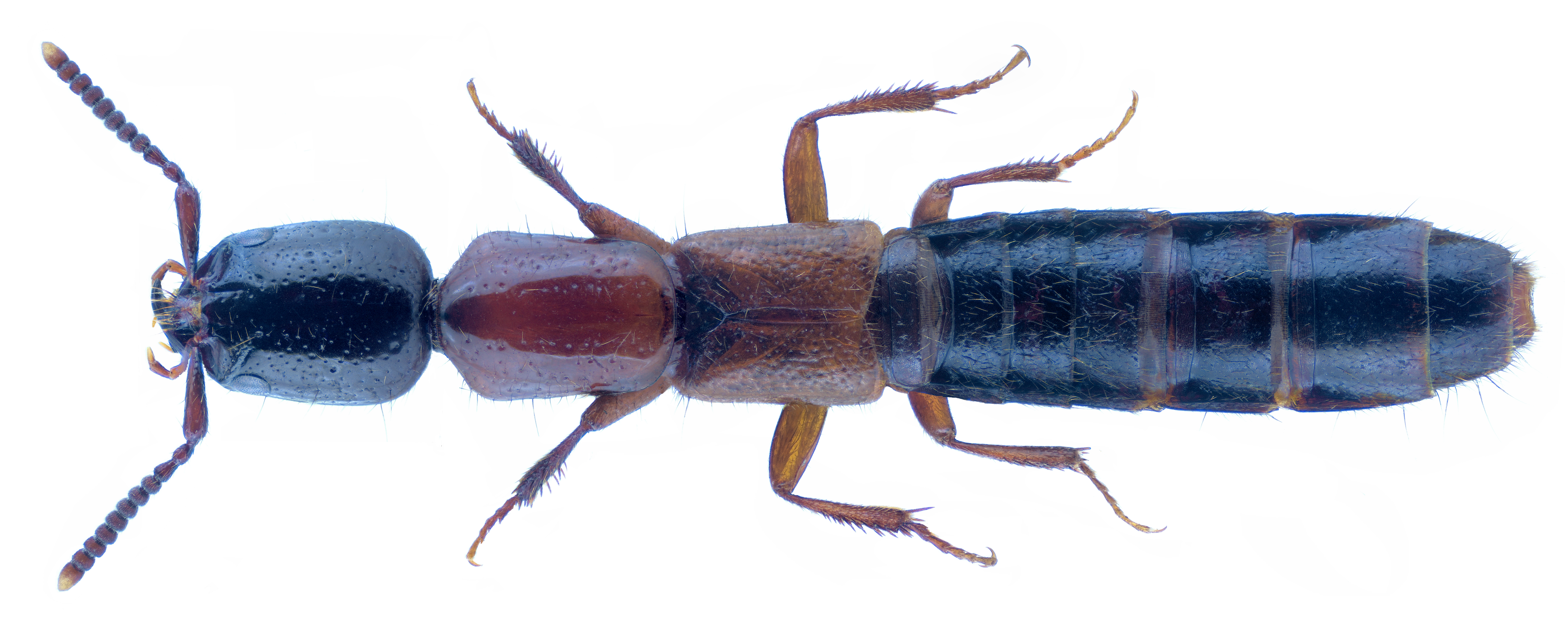 Family: Staphylinidae Size: 11.7 mm (9.0 to 12.0 mm) Origin: Atlantomediterran, Central Europe Ecology: In unwooded and warmer biotopes Location: Germany, Bavaria, Upper Franconia, Breitenlesau leg.det. U.Schmidt, 4.VIII.1991 Photo: U.Schmidt, 2018